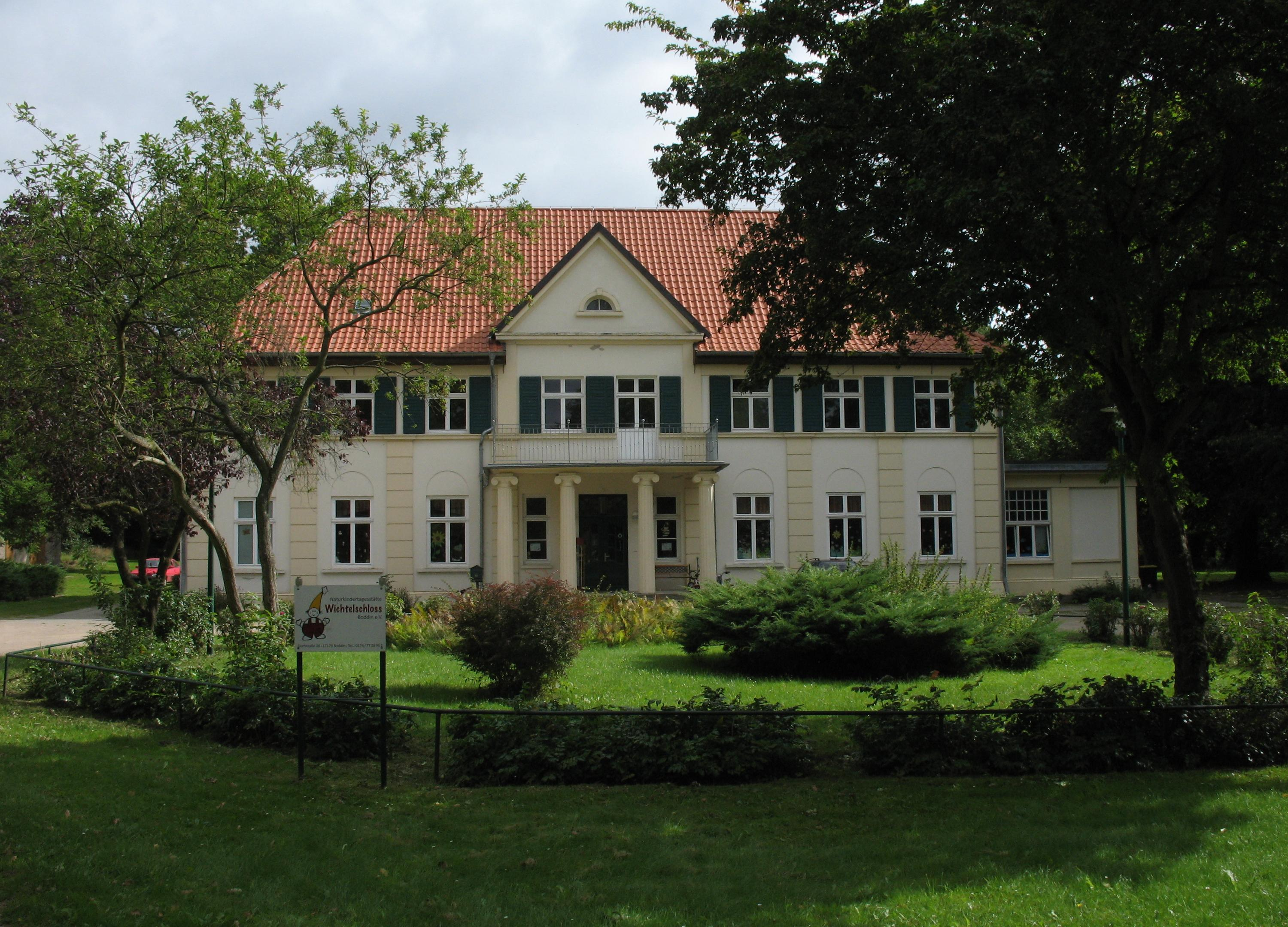 Manor house in Boddin in Mecklenburg-Western Pomerania, Germany